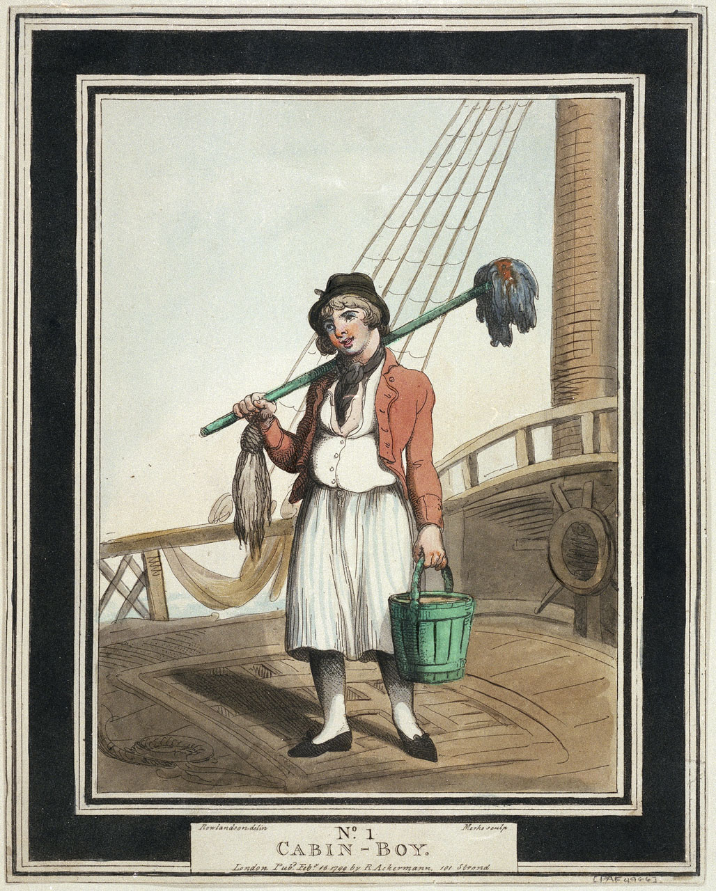 Cabin boy, 1799.